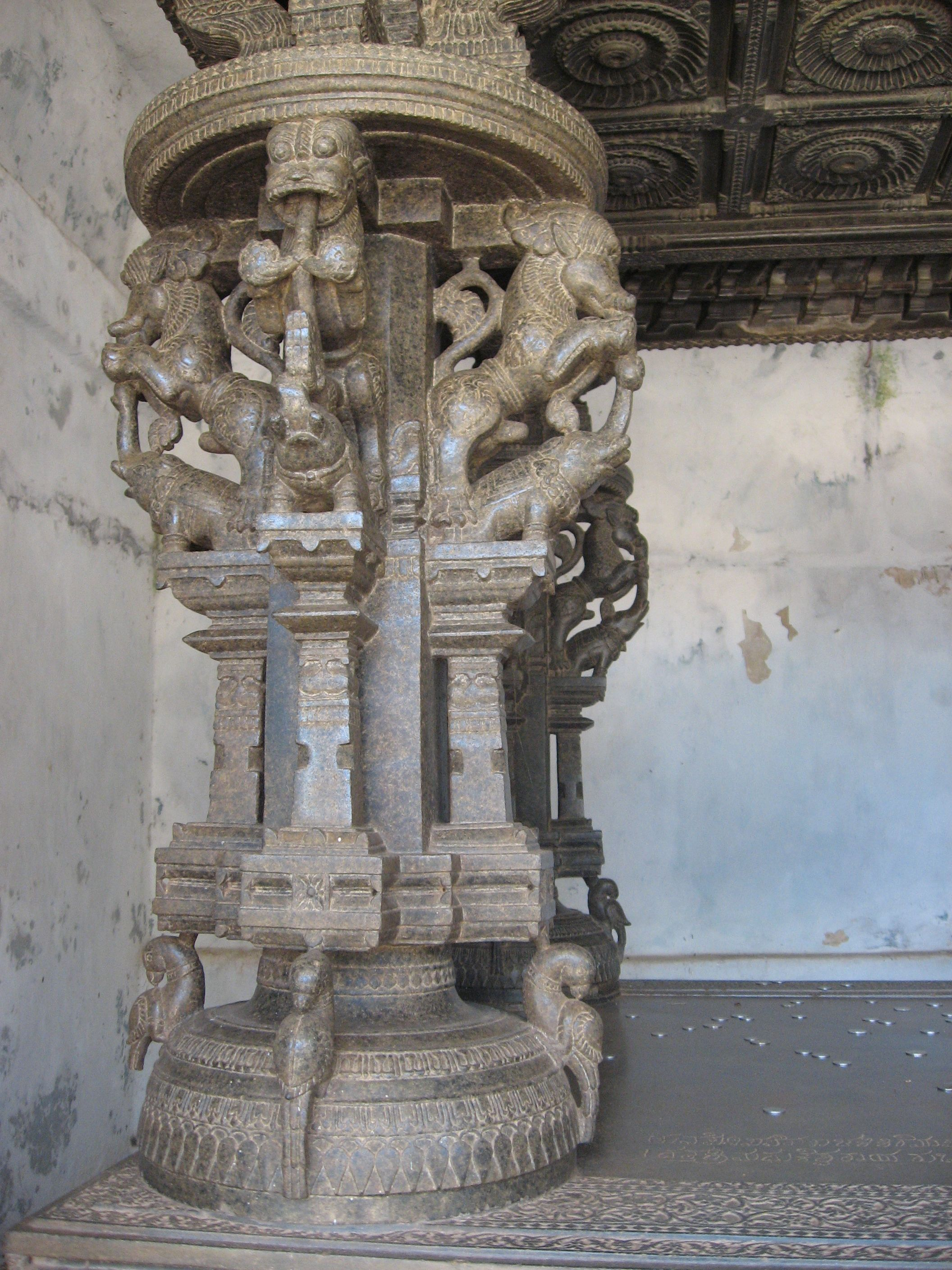 Banavasi Temple